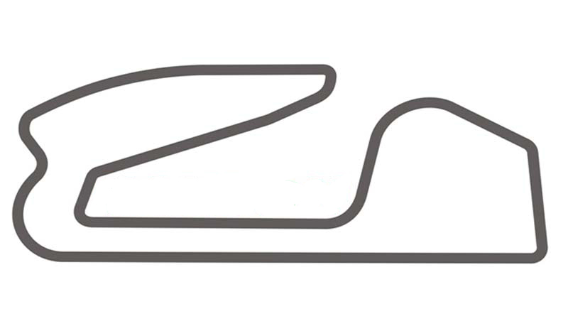 Трасса Каньон